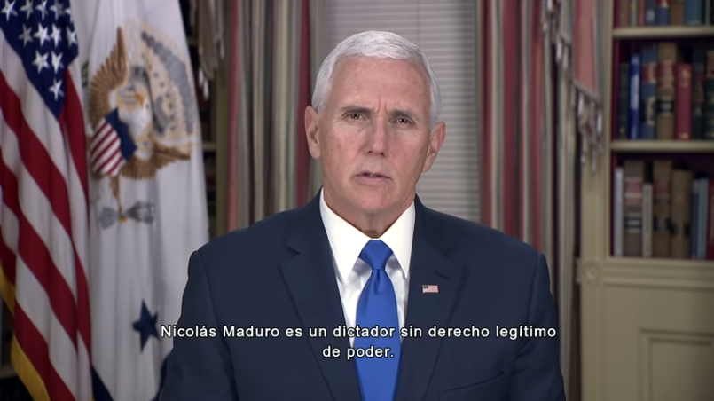 Mike Pence says Maduro is dictator in Venezuela video